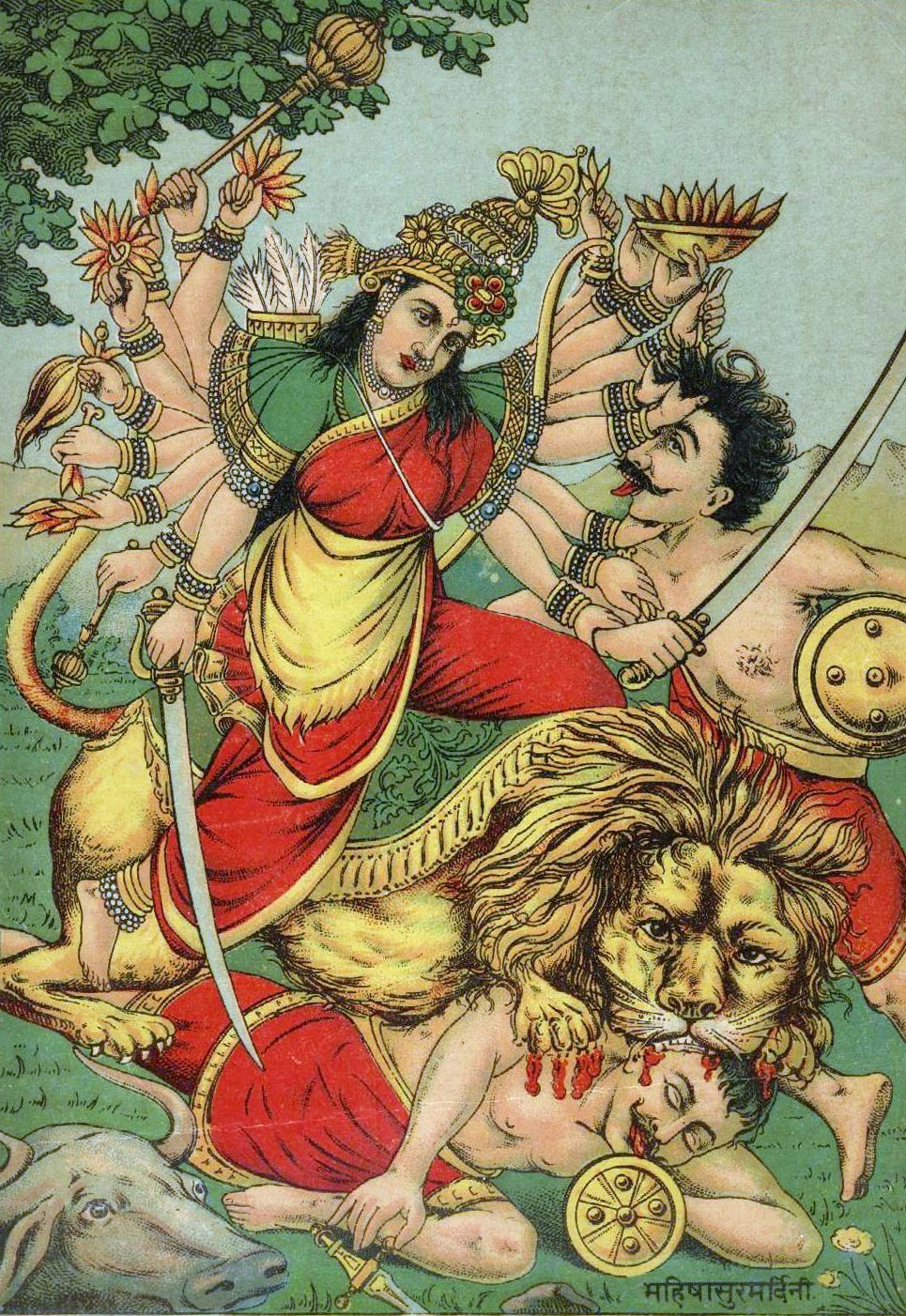 Durga Mahishasura-mardini, the slayer of the buffalo demon, published by Anant Shivaji Desai.